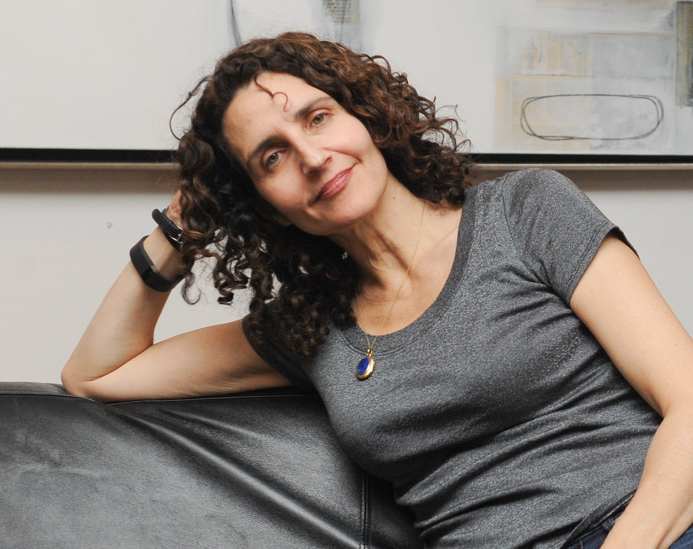 Tamara Jenkins in 2013